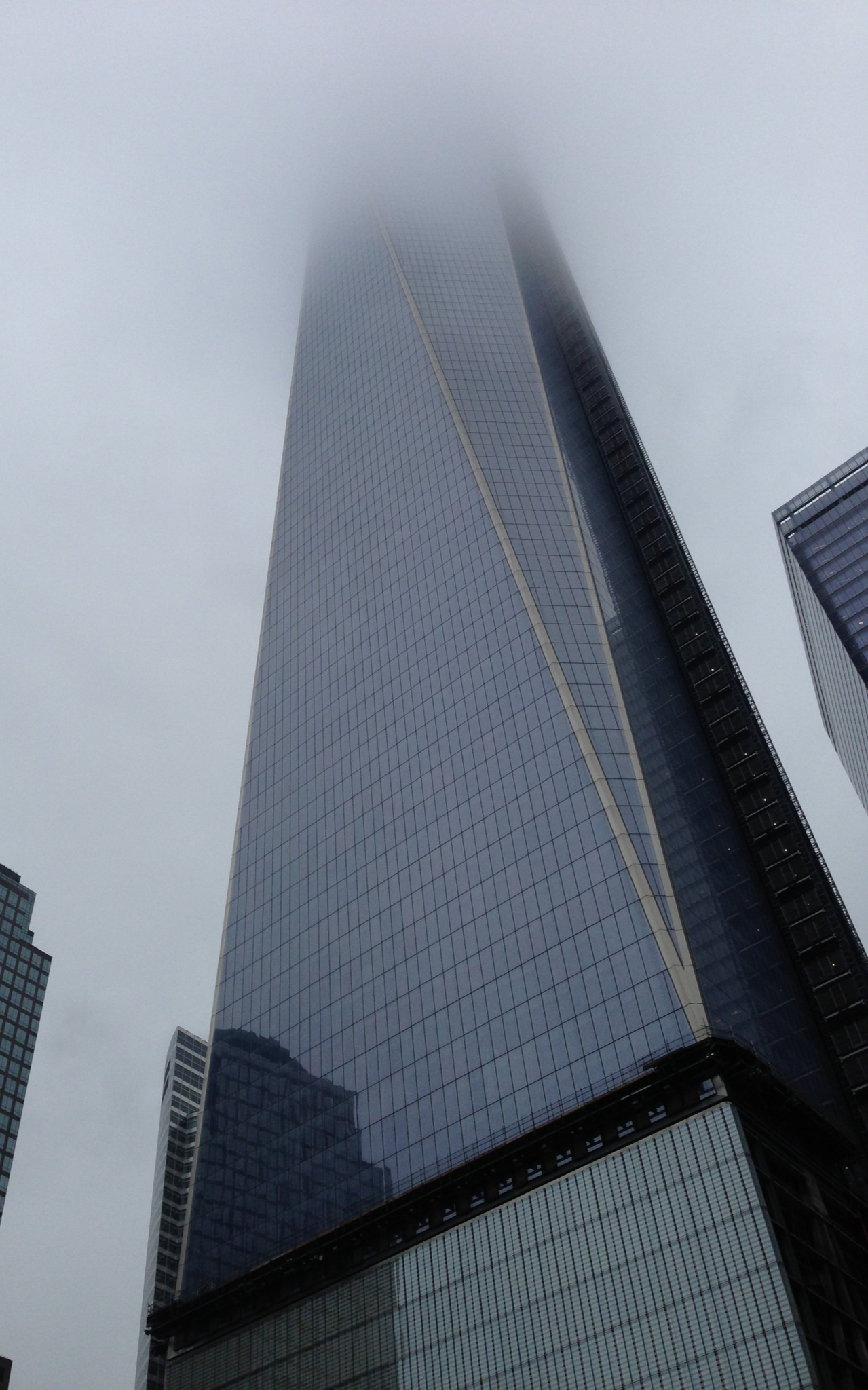 This photo was taken from the 9/11 memorial, next to the survivor tree.